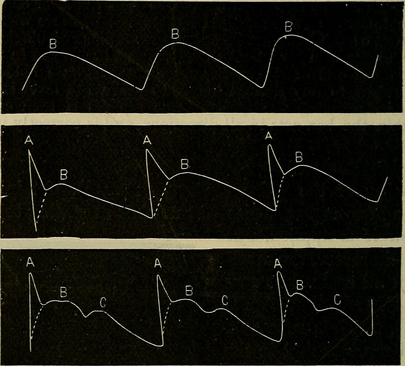 Title: Hand-book of physiology Year: 1892 (1890s) Authors: Baker, W. Morrant, (William Morrant), 1839-1896 Harris, Vincent Dormer Kirkes, William Senhouse, 1823-1864. Hand-book of physiology. 13th ed Subjects: Physiology Human physiology Publisher: London : John Murray Text Appearing Before Image: 222 CIECULATION OF THE BLOOD. (ch. VI. stroke and downstroke, because they are universally taken tomean the sudden injection of blood into the already full arteries,and the gradual fall of the lever signifying the recovery of thearteries by their recoil. These points may be demonstrated on asystem of elastic tubes, with a syringe to pump in water atregular intervals, just as well as on the radial artery, or on themore complicated system of tubes in which the heart, the arteries,the capillaries and veins are represented, which is known as an Text Appearing After Image: Fig. 185.—Diagram of the formation of the pulse-tracing, a, percussion -nave; b, tidalwave; c, dicrotic wave. (Mahomed.) arterial schema. If we place two or more sphygmographs uponsuch a system of tubes at increasing distances from the pump,we may demonstrate first, that the rise of the lever commencesearliest in that nearest the pump, and secondly, that it is higherand more sudden, while at a longer distance from the pump thewave is less marked, and a little later. So in the arteries of thebody the wave of blood gradually gets less and less as weapproach the periphery of the arterial system, and is lost in thecapillaries according to Mahomed. By the sudden injection ofblood two distinct waves are produced, which are called the tidaland percussion waves. The tidal wave occurs whenever fluid isinjected into an elastic tube (fig. 185, b), and is due to theexpansion of the tube and its more gradual collapse. The per-cussion wave occurs (fig. 185, a) when the impulse imparted tothe flui